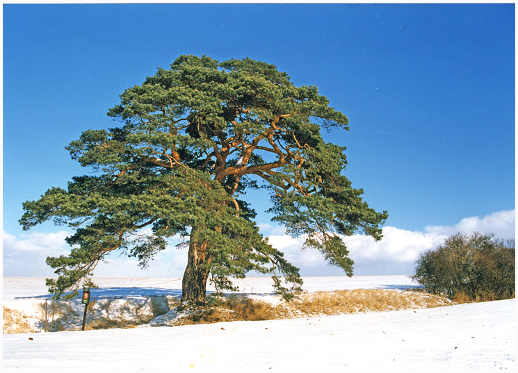 Scots Pine (Pinus sylvestris)